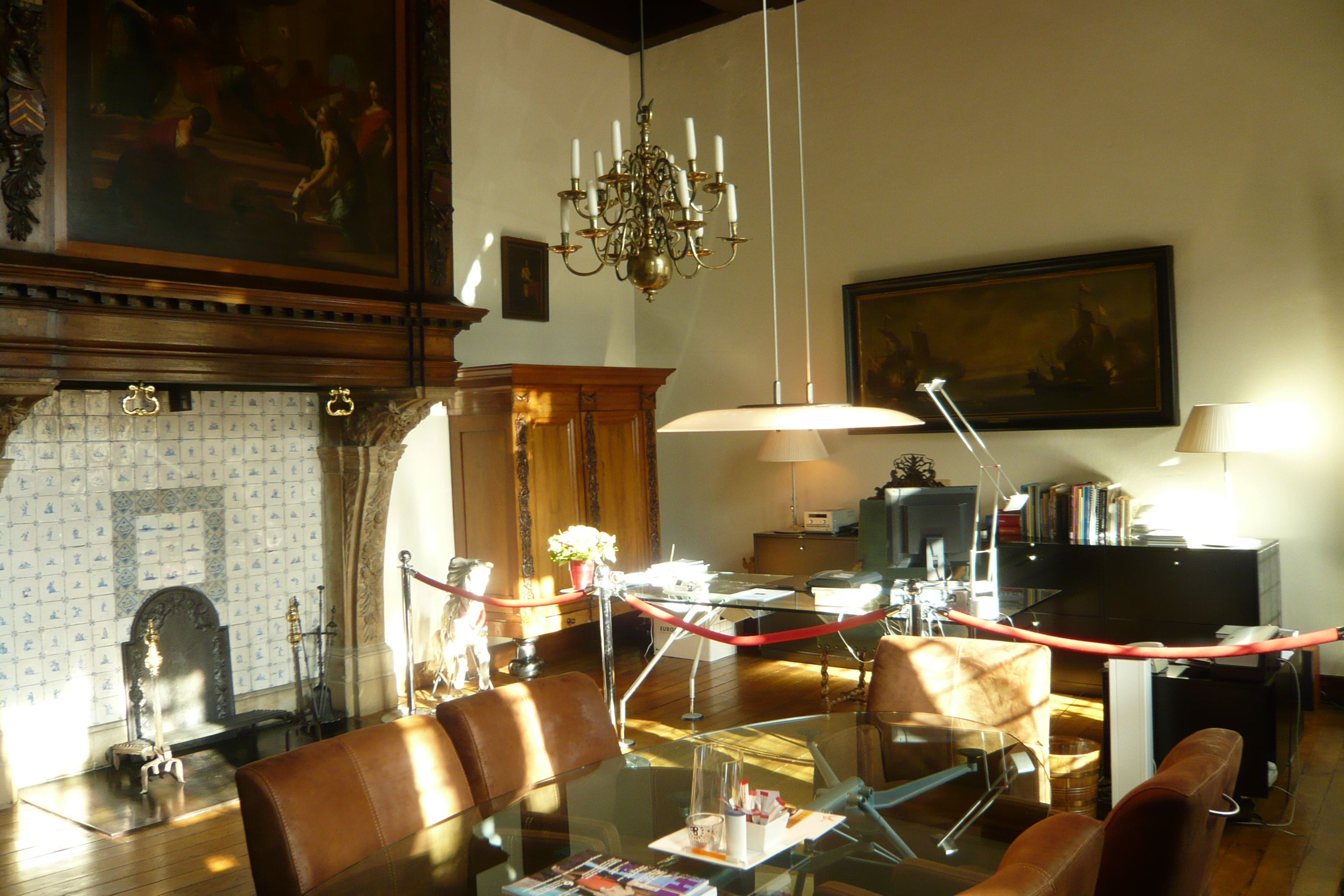 Haarlem city hall mayor's office. These paintings have not been cleaned, because they are not officially in the collection of the Frans Hals Museum.